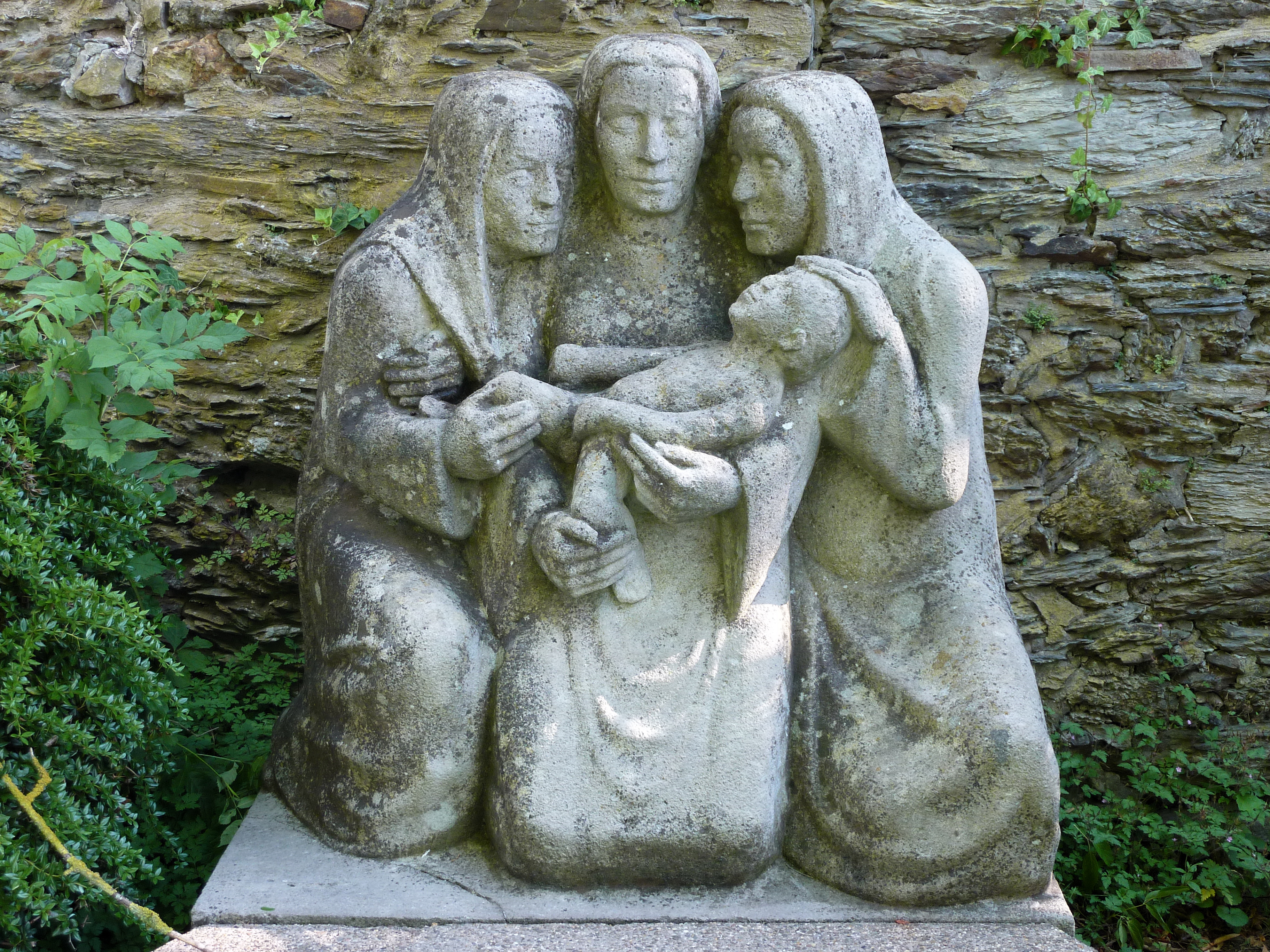 City of Siegen (Westphalia, Germany): Monument for baroque painter Peter Paul Rubens, born in Siegen on June 29, 1577. Part of the Rubens Fountain (Rubensbrunnen), sculptor: Hermann Kuhmichel, 1935